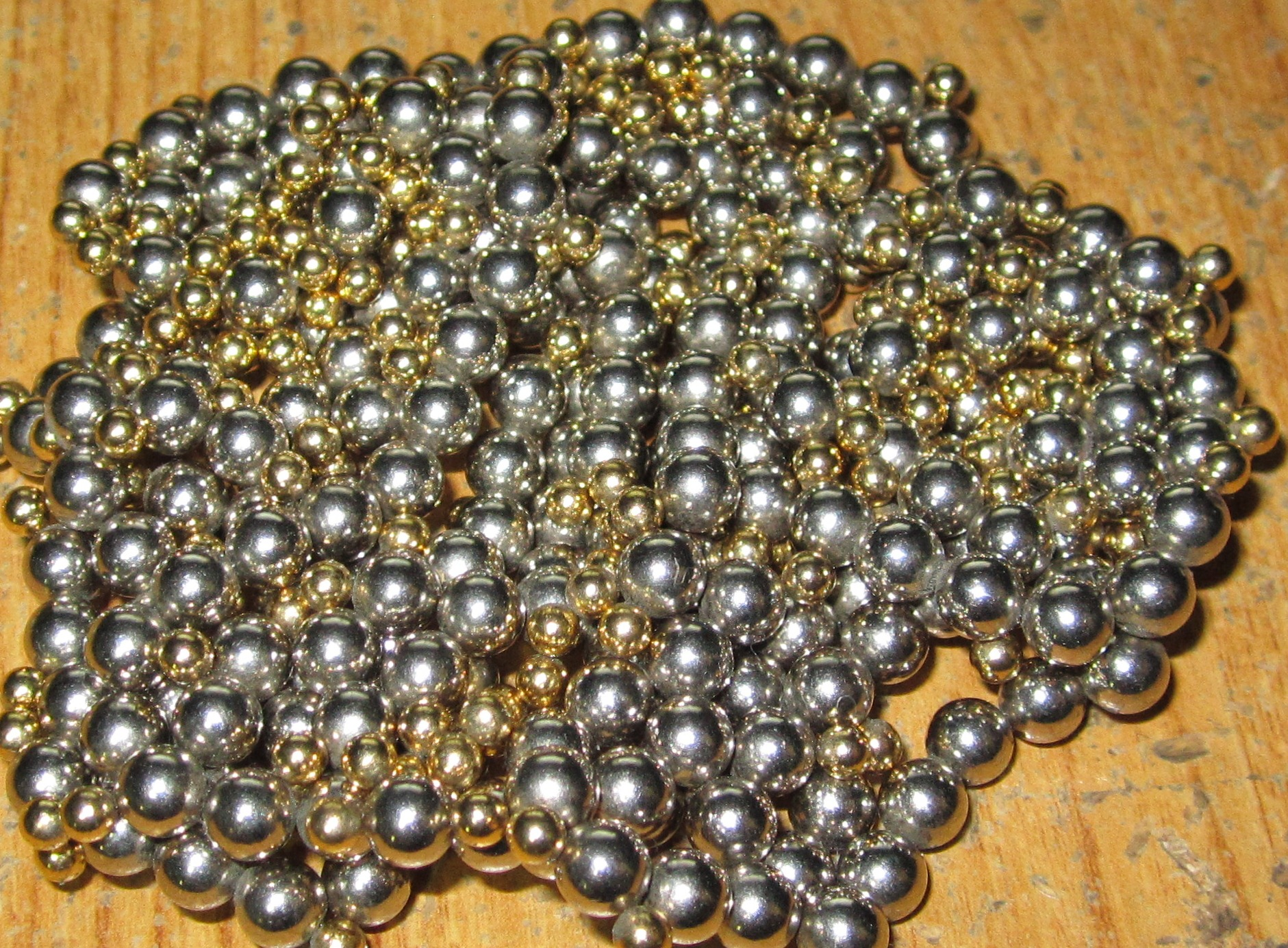 Neodymium beads